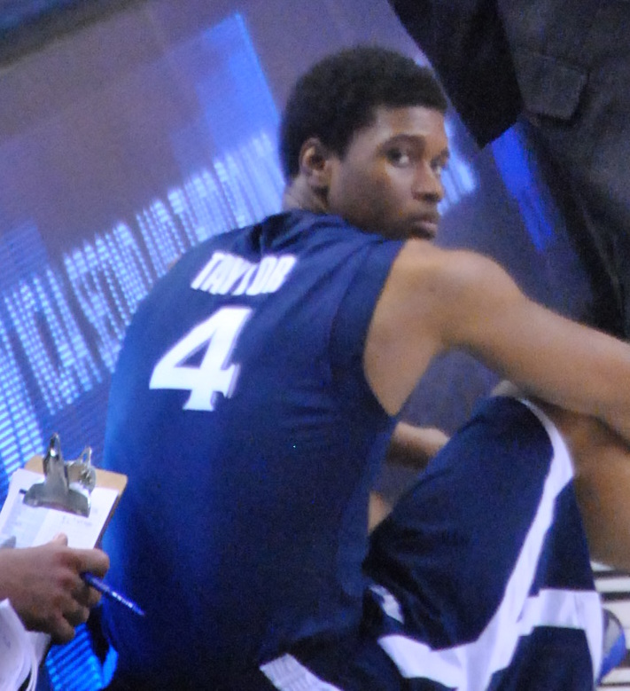 Xavier Coach Chris Mack shouts instructions to his Musketeers.